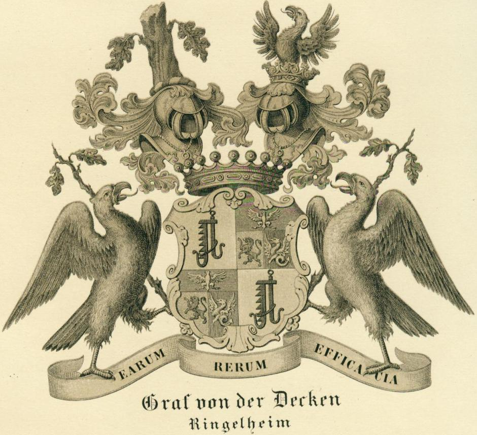 Wappen der von der Decken-Ringelheim